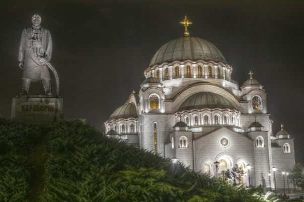 Hram svetog save (Beograd)